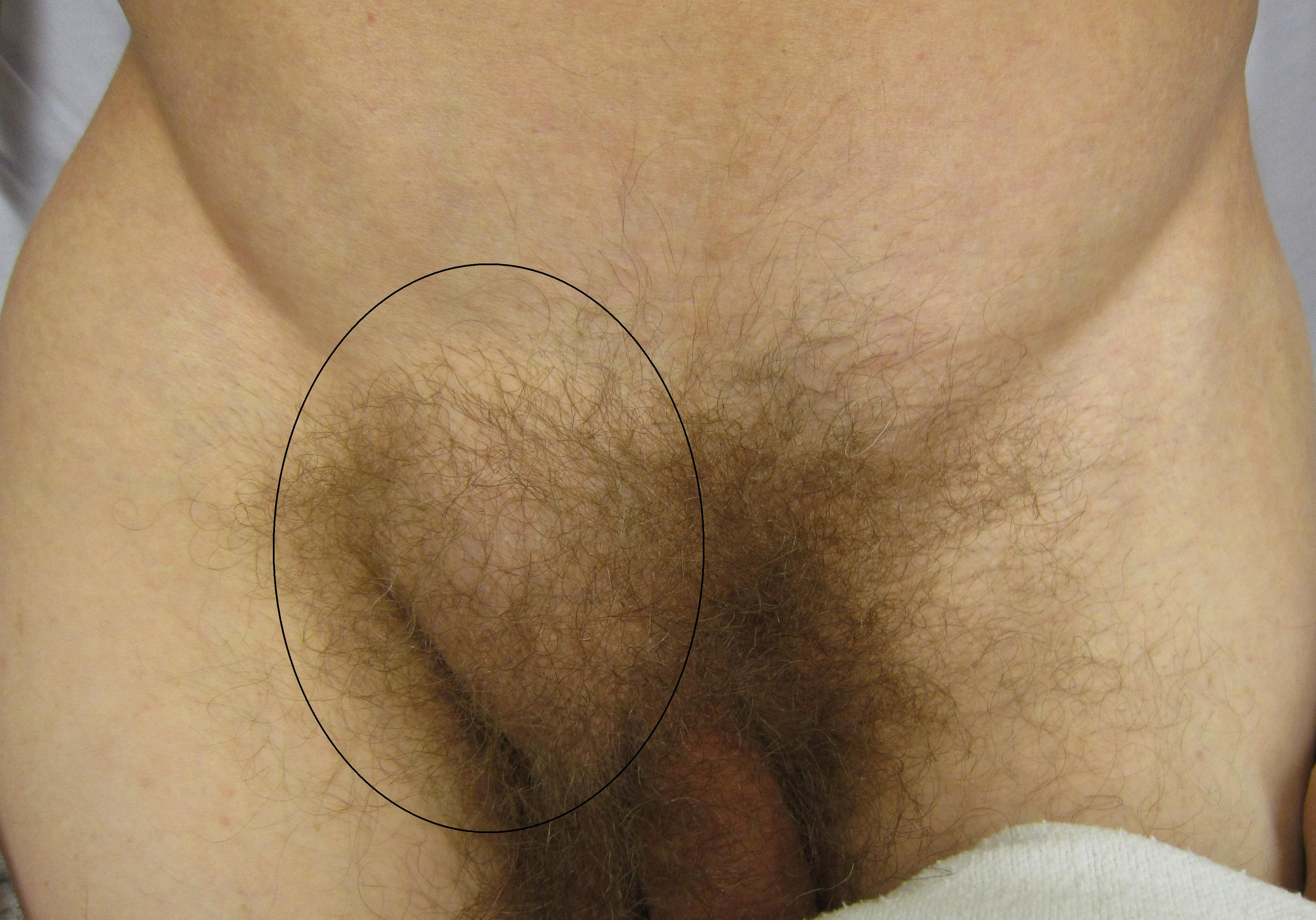 A large right sided hernia